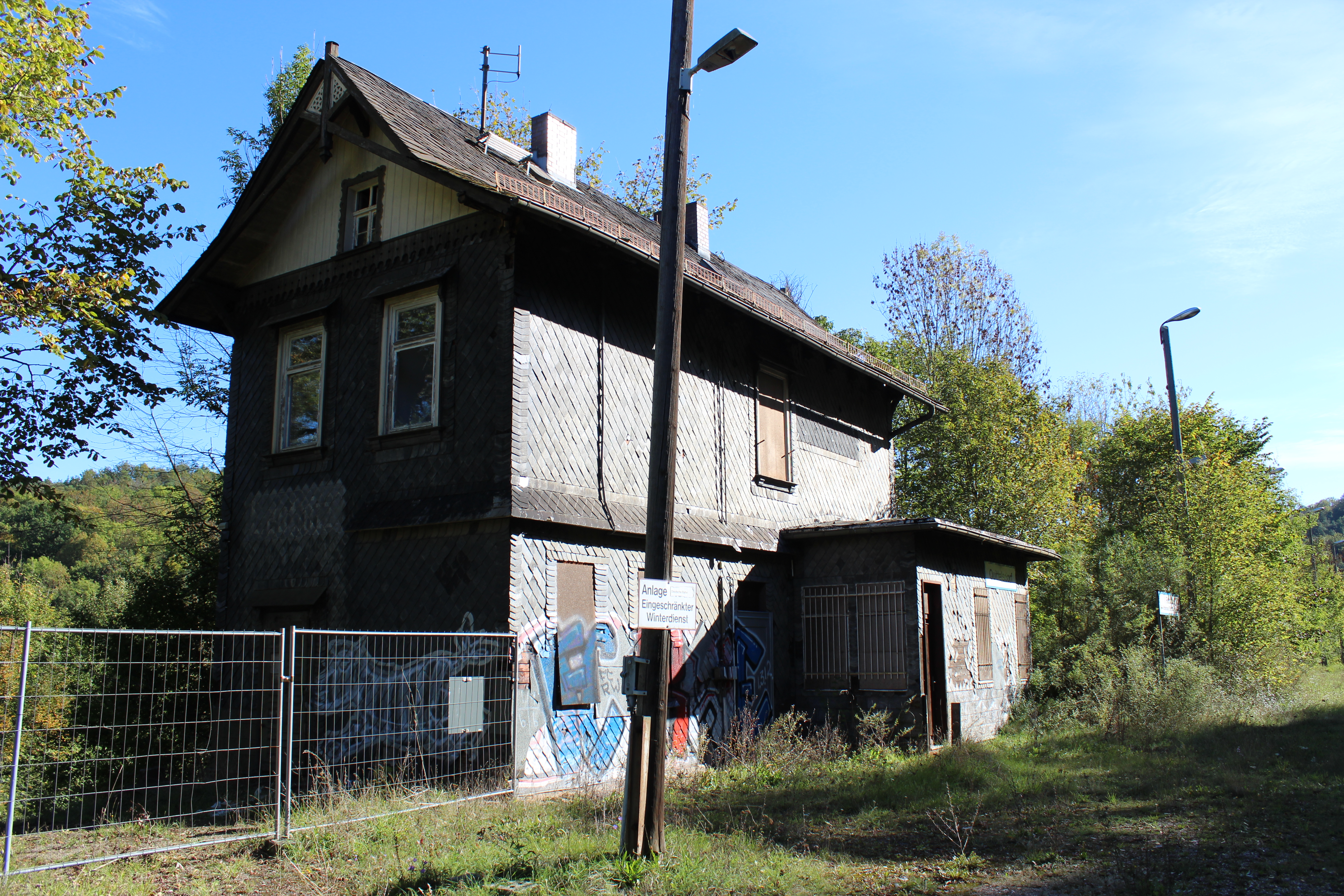 train station Quittelsdorf